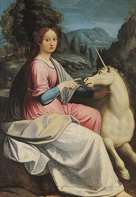 Depicted person: Possibly Giulia Farnese